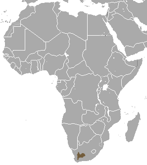 Riverine Rabbit (Bunolagus monticularis) range